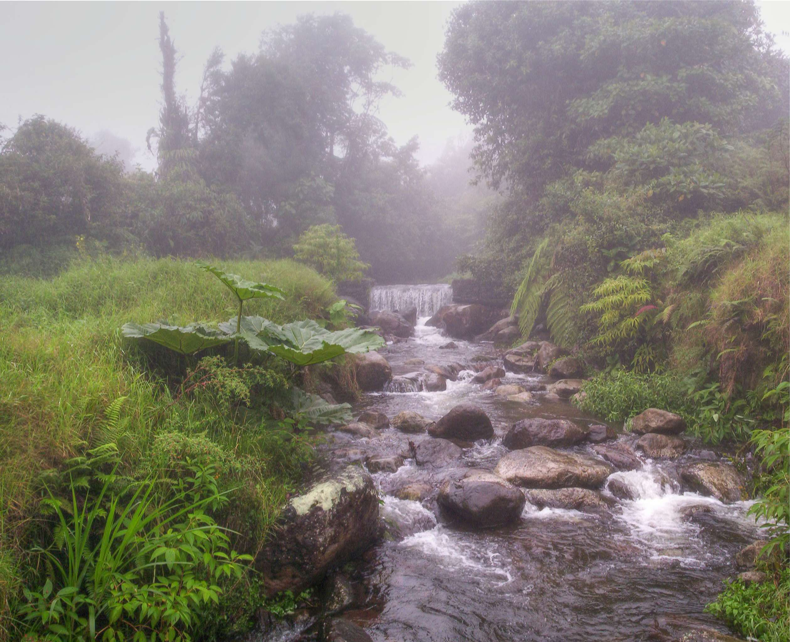 Cascajal Coronado river — Vásquez de Coronado canton of San José, Costa Rica.